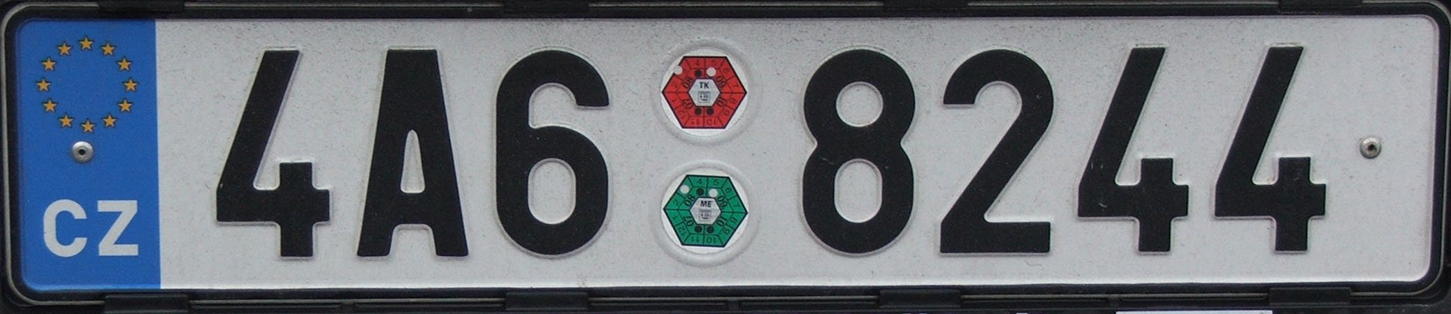 Czech registration plate as seen in 2007 - (New system of licence plates from 2001) - issued after 2004 with EU symbols. "A" stand for Prague.